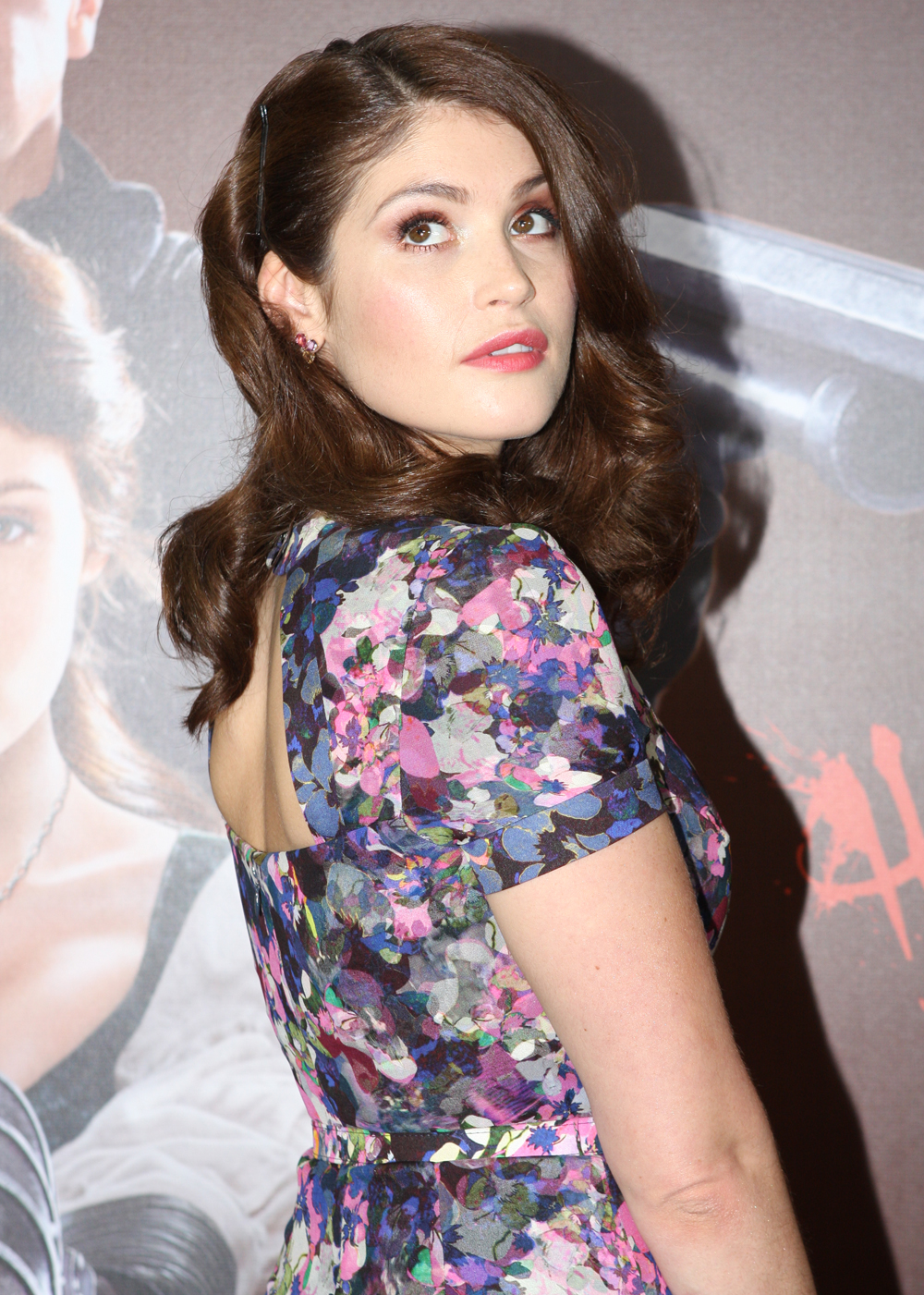 Gemma Arterton at the Hansel & Gretel: Witch Hunters 3D movie premiere; Sydney, Australia.